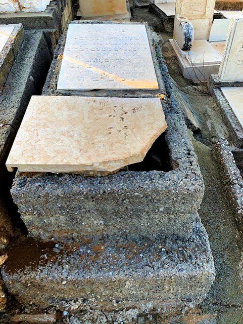 Deteriorated grave (Old) Rishon LeZion cemetery.